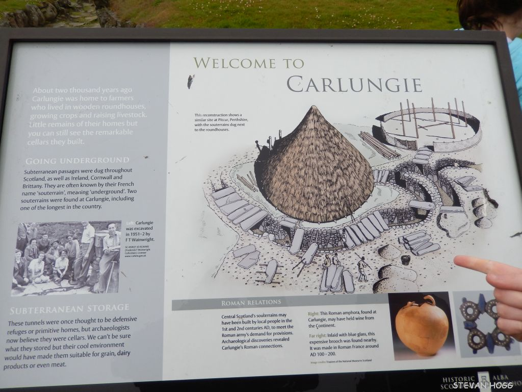 Carlungie Earth House